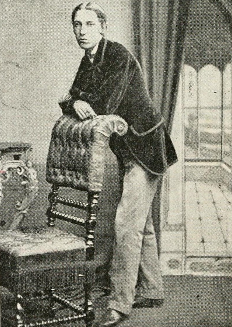 Robert Louis Stevenson at the age of 20.